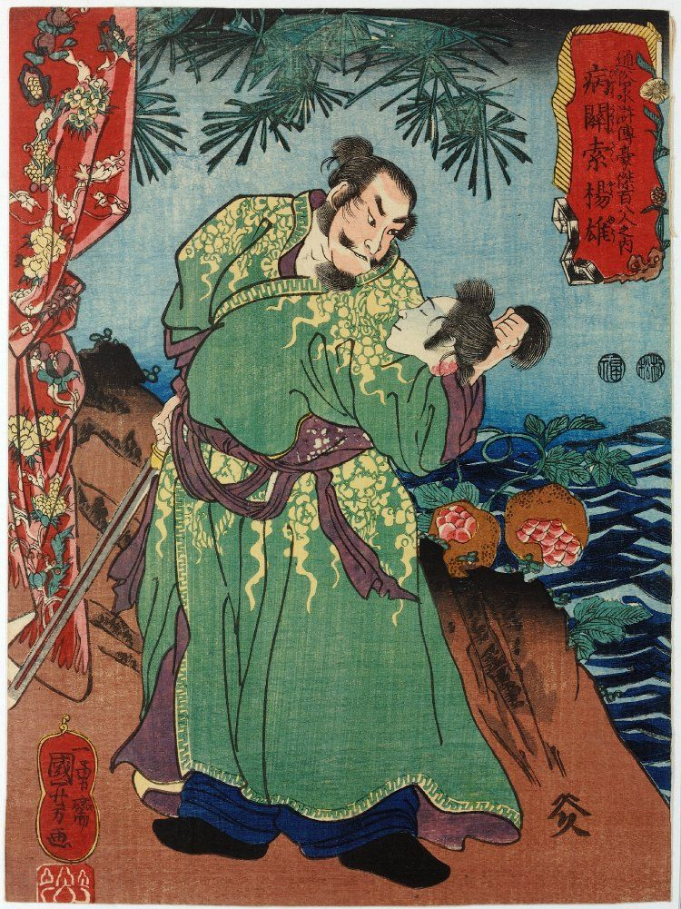 Yang Xiong (楊雄) gazing at the severed head of his adulterous wife, which he holds in one hand by the hair.